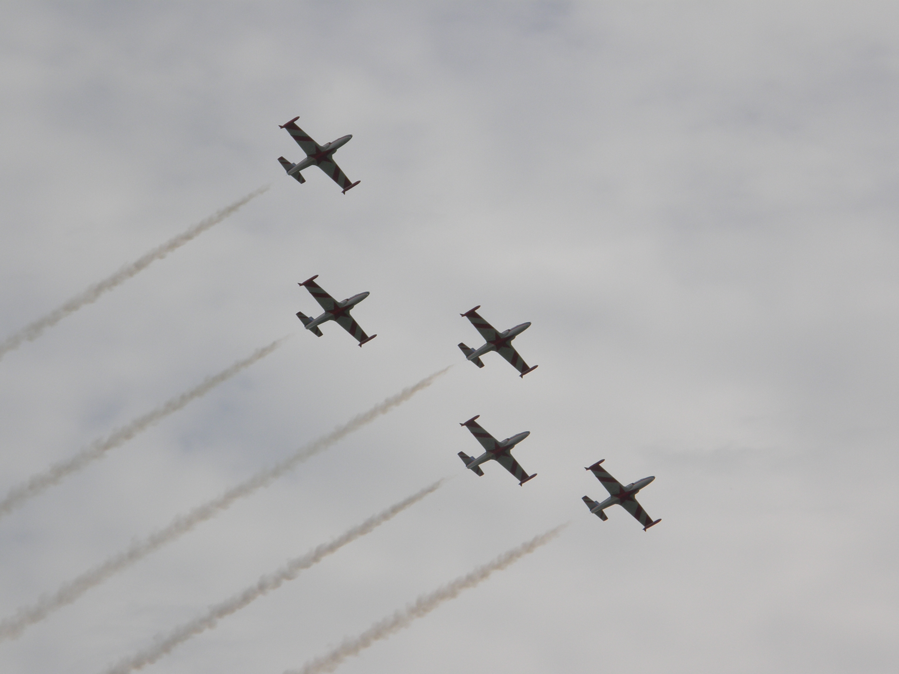 Serbian Aerobatic team "Zvezde" flying SOKO Galeb G-2 jets on display in Maribor, Slovenia